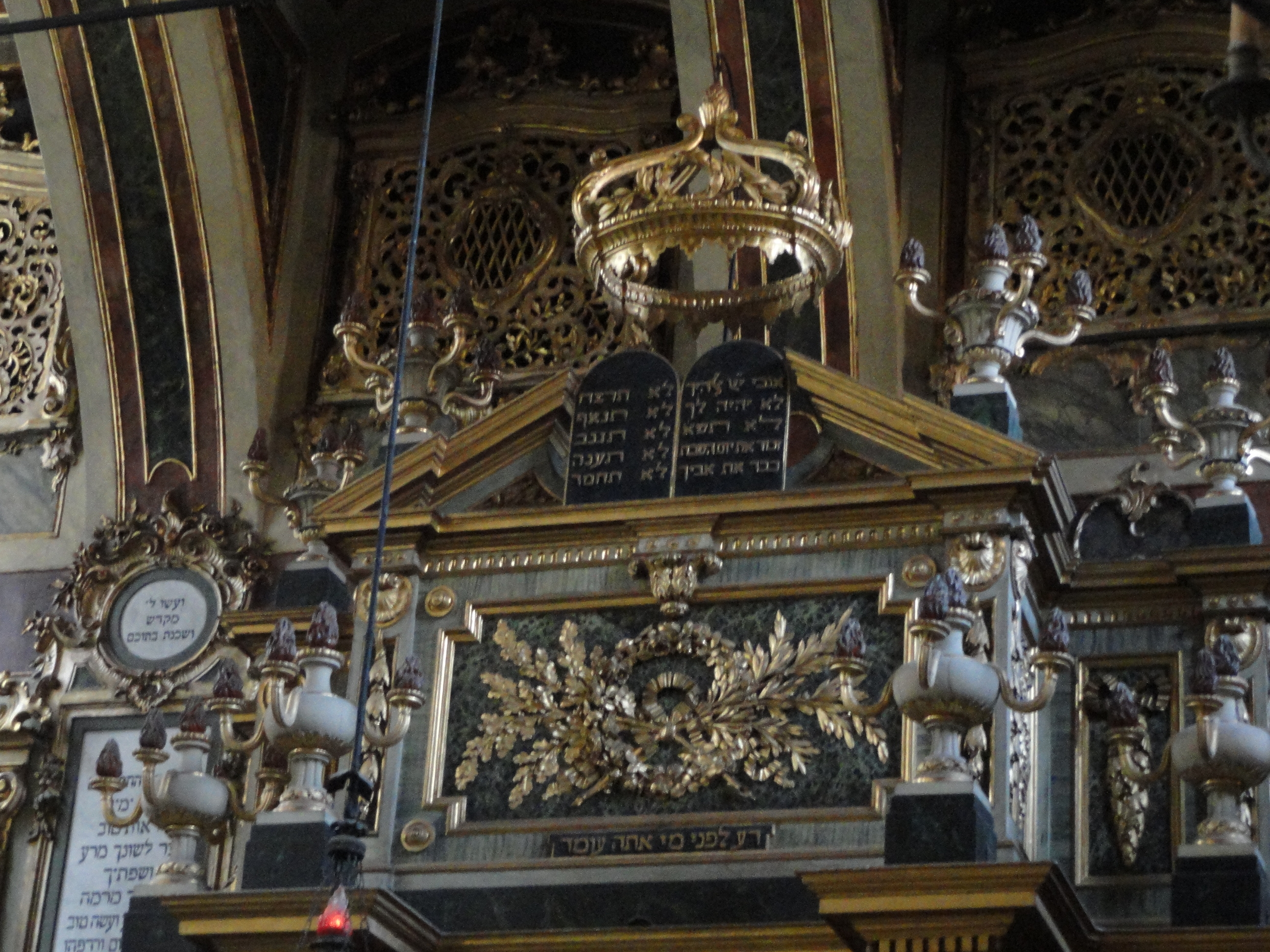 Top of the Ark in the synagogue of Casale Monferrato (Piemonte - Italy)